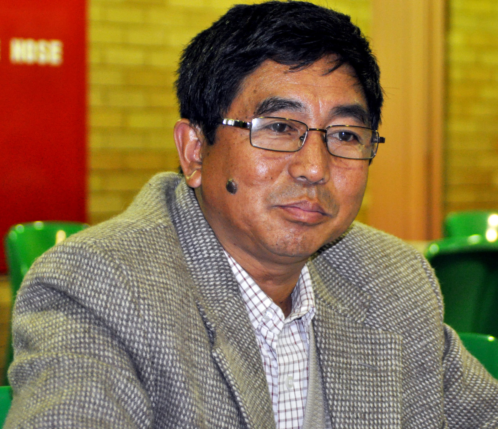 This is the portrait photo of Ashok Rai, a leader of a political party of Nepal called Federal Socialist Party. This photo is taken during the farewell program in Australia by user Ashishlohorung.